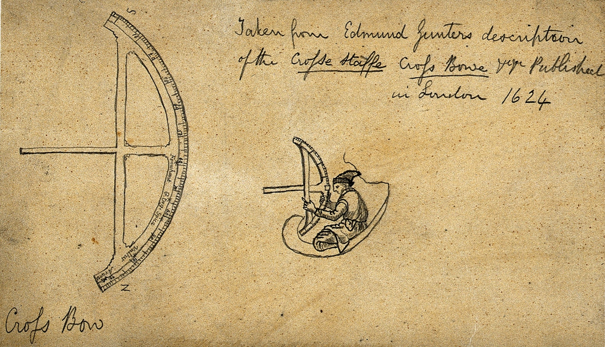 Navigation: a cross-staff or cross-bow, and a sailor using the device. Drawing, n.d., after Edmund Gunter, 1624. Iconographic Collections Keywords: Edmund Gunter